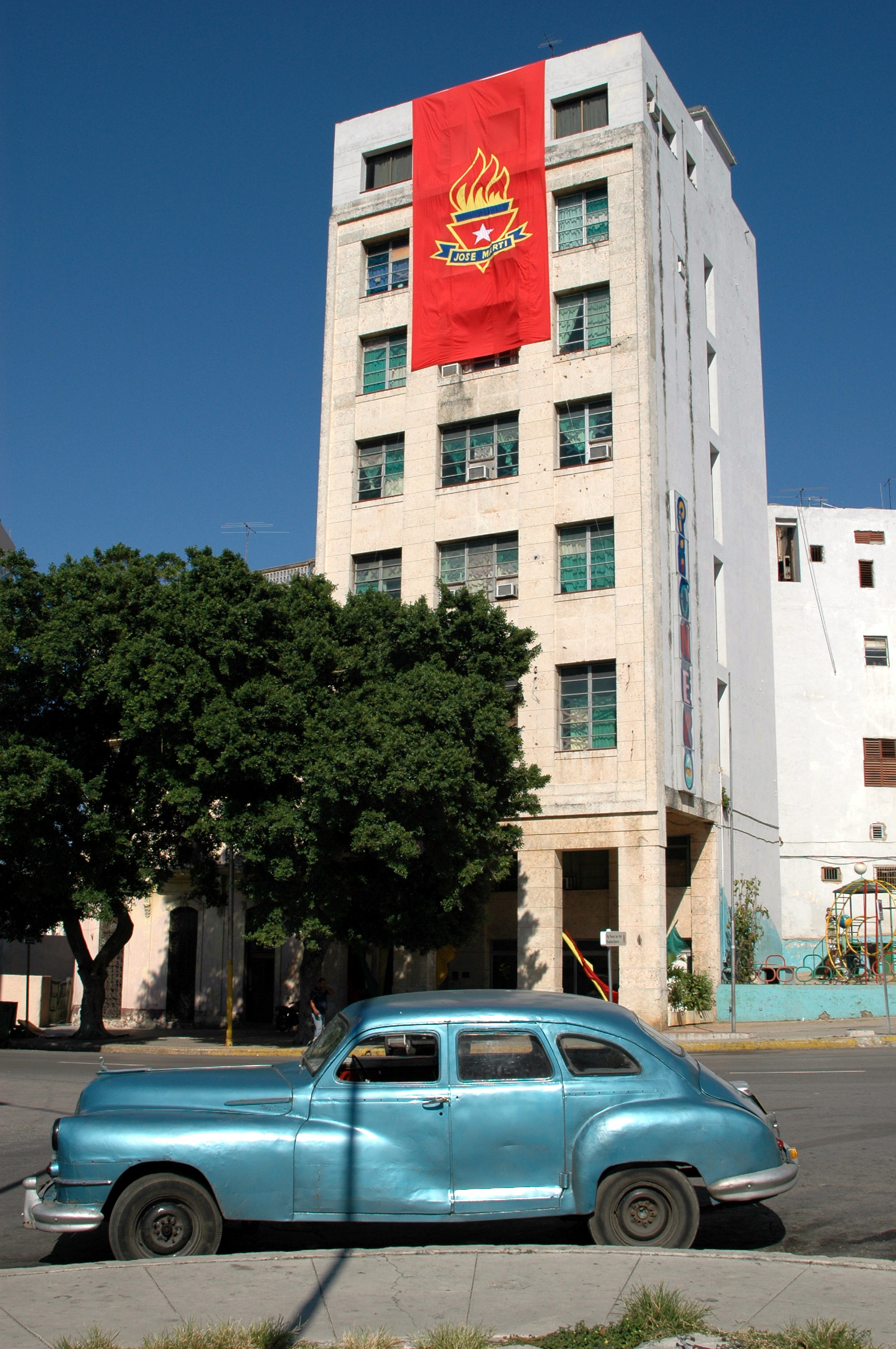 Chevrolet classic car and OPJM building in Havana, Cuba.